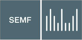 Logo of German SEMF Festival in Stuttgart.